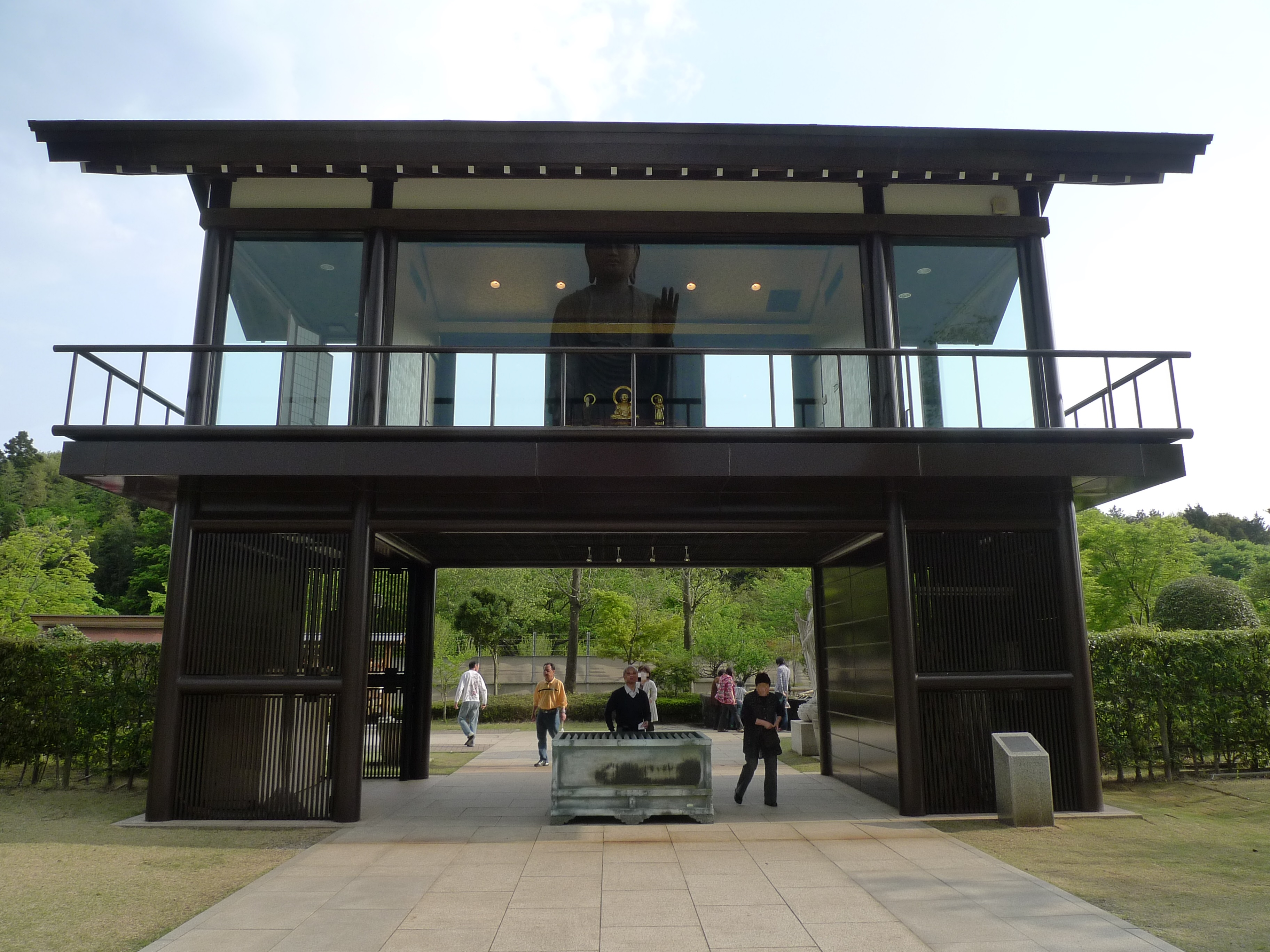 Hakken-mon Gate, Ushiku jouen, Ushiku city, Ibaraki pref, Japan